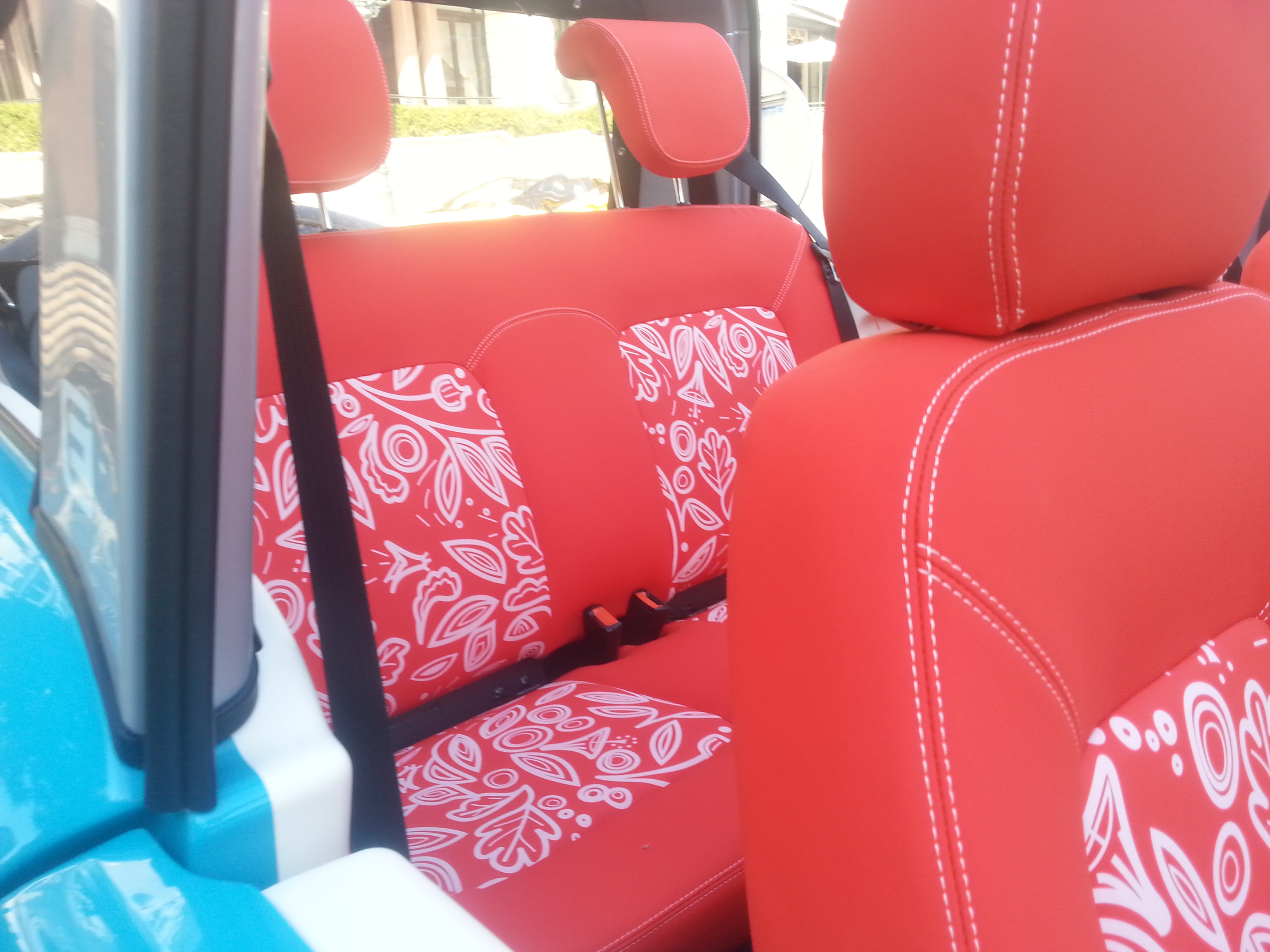 Citroën automobile. Place du Casino, Monte Carlo